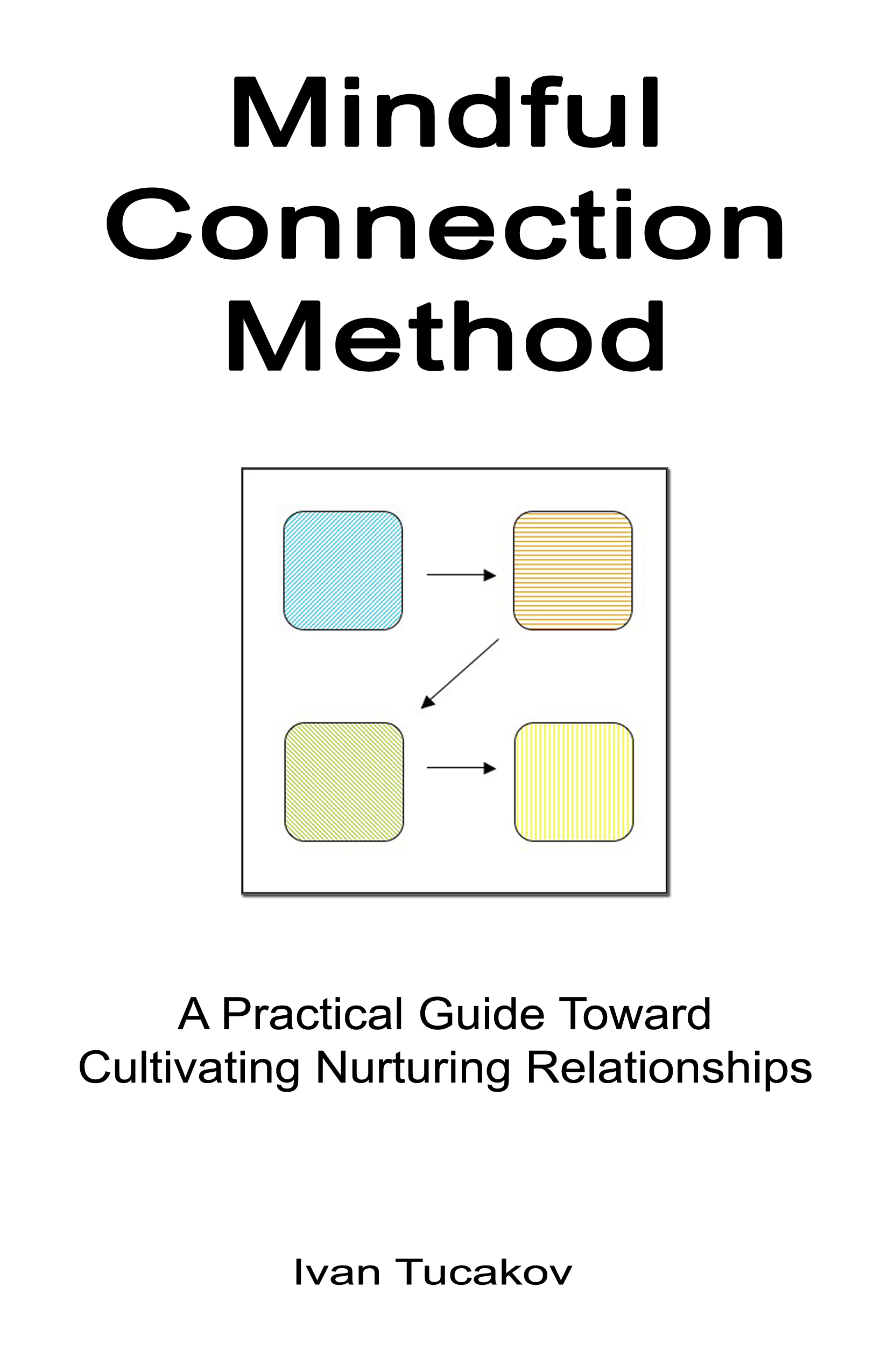 Book cover - Ivan Tucakov - Mindful Connection Method